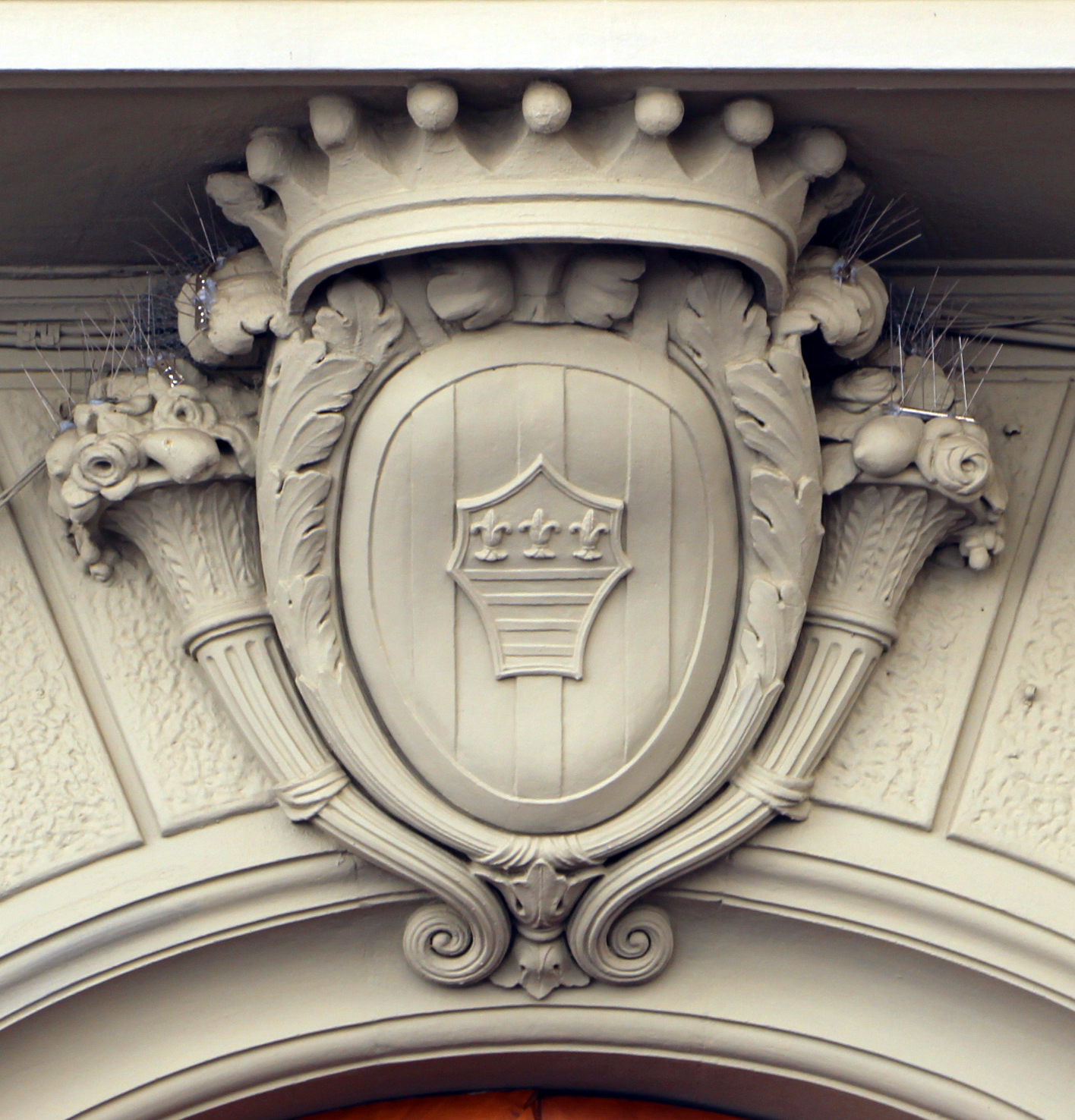 Palazzo Durazzo (Florence)